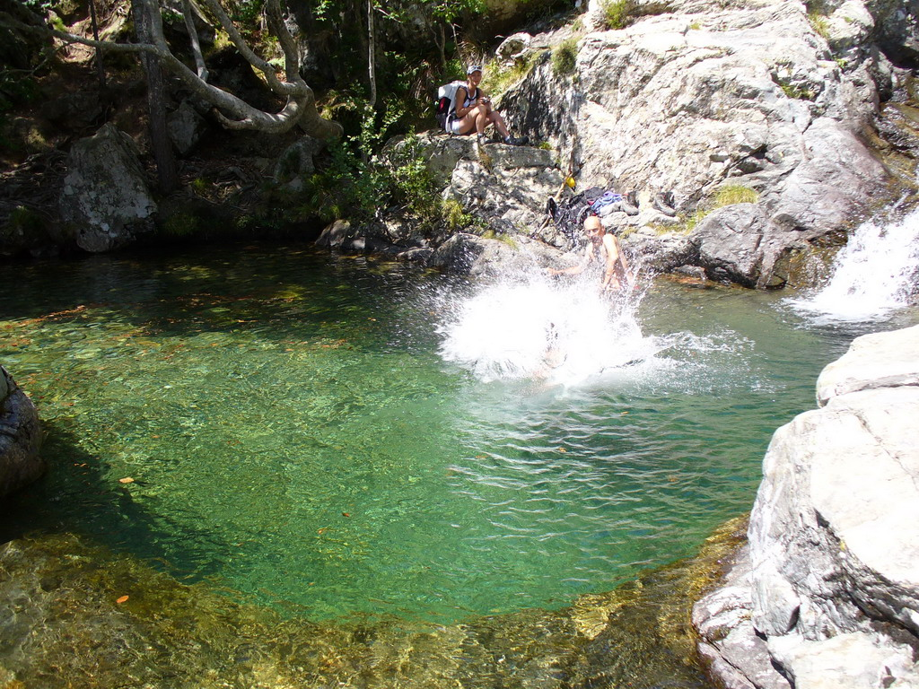 Corsica - Cascade des Anglais - guy jumping in the pond